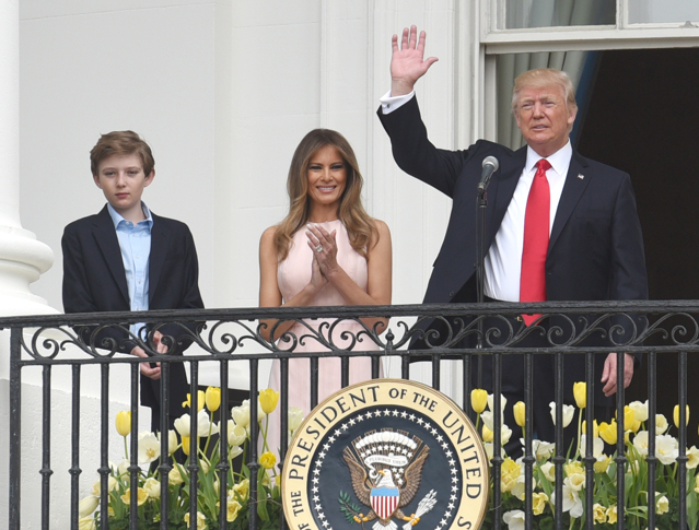 President Donald Trump and First Lady Melania Trump participates in the Easter Egg Roll on the South Lawn of the White House, Monday, April 17, 2017, in Washington, D.C. This is the first Easter Egg Roll of the Trump Administration. Official White House Photo by Joyce N. Boghosian.